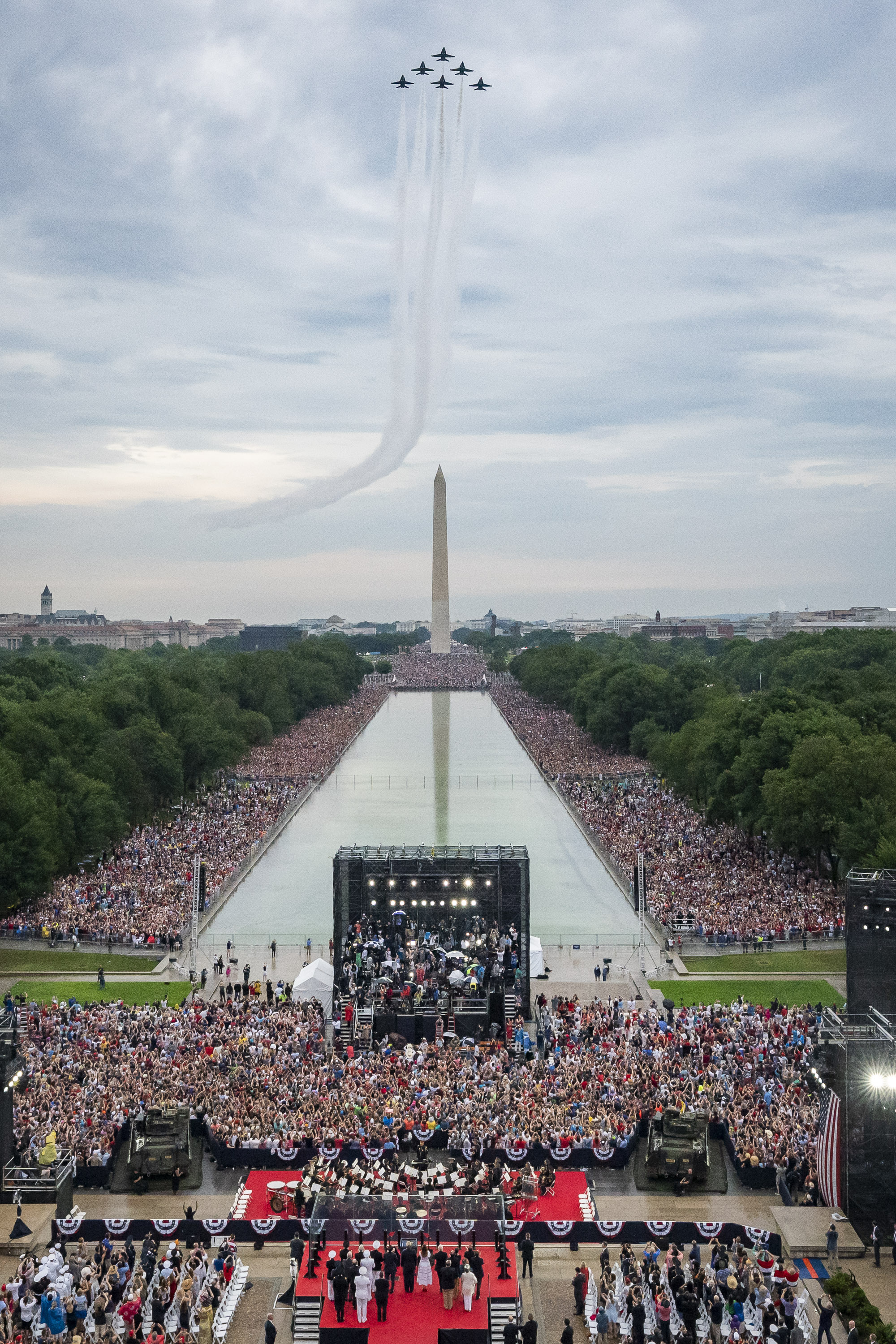 The Blue Angels fly over the National Mall as President Donald J. Trump, addresses his remarks at the Salute to America event Thursday, July 4, 2019, at the Lincoln Memorial in Washington, D.C. (Official White House Photo by Tia Dufour)